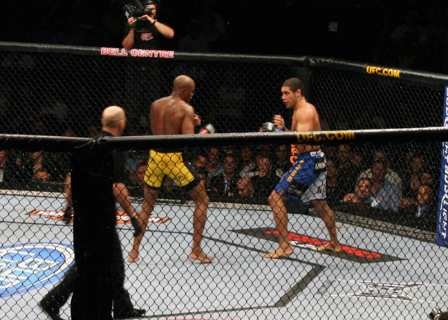 Anderson "The Spider" Silva UFC 97 - Montreal Elite Sports Tours Bus Tour MLB NFL NBA NHL UFC BUS TOURS & TICKET PACKAGES